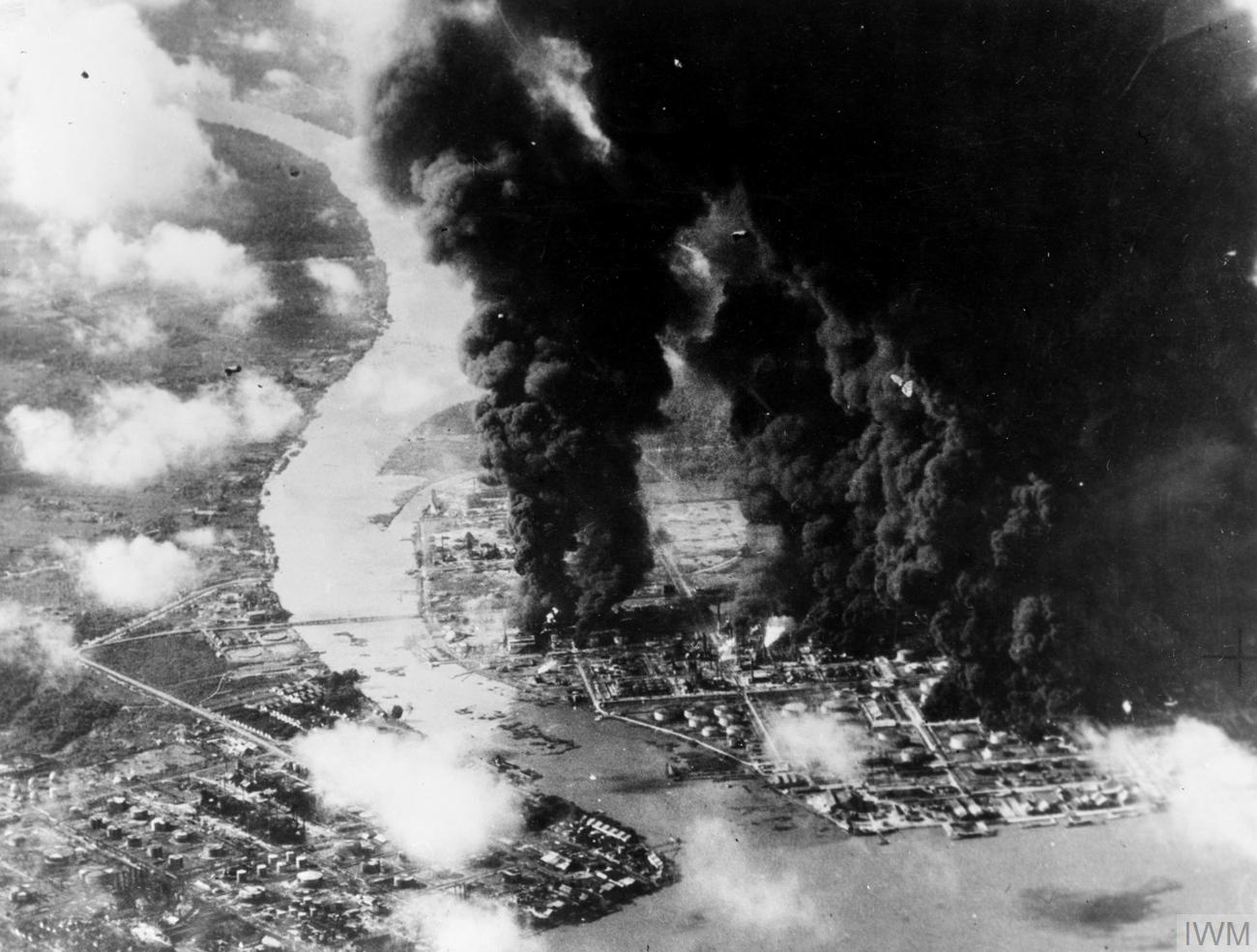 JAPANESE OIL REFINERIES AT PALEMBANG BURNING DURING ATTACK BY BRITISH AIRCRAFT. JANUARY 1945, FROM ONE OF THE ATTACKING AIRCRAFT OF HMS VICTORIOUS